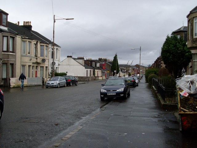 Craigton Road Heading into Craigton from Govan, towards Sheildhall Road.